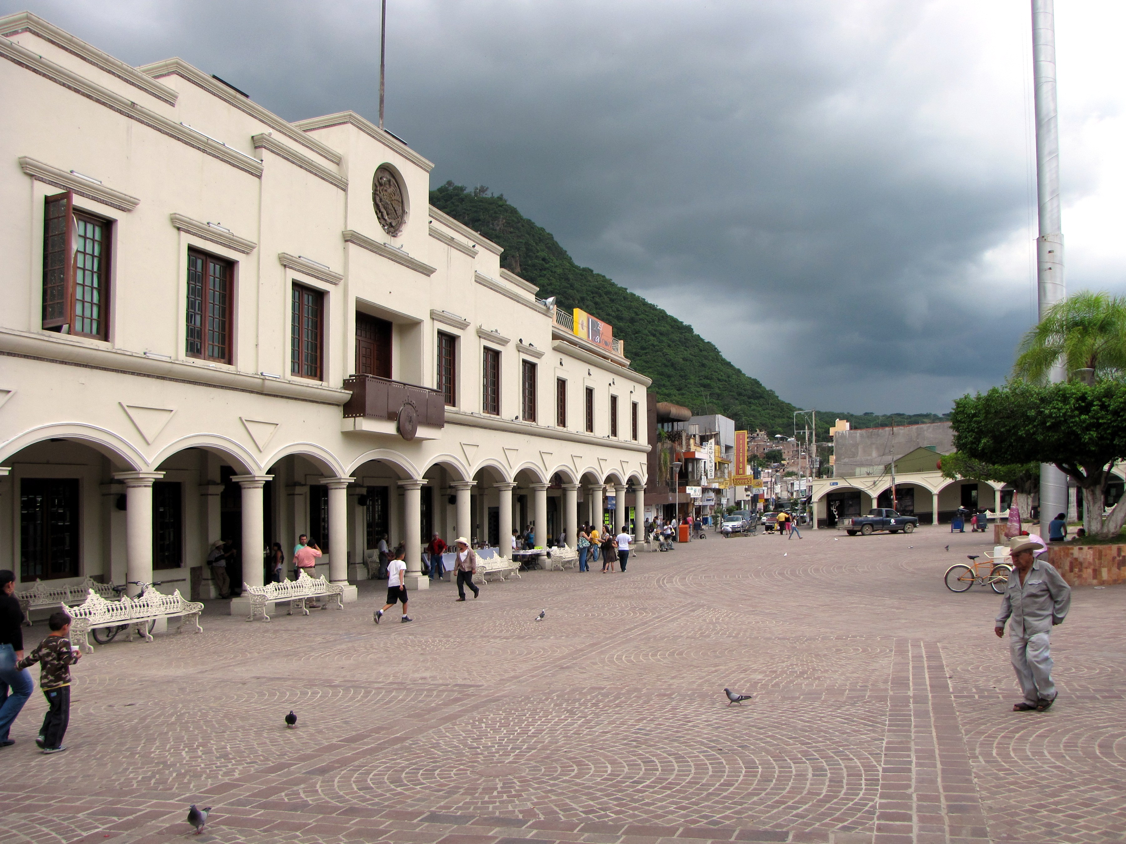 Tamazula de Gordiano